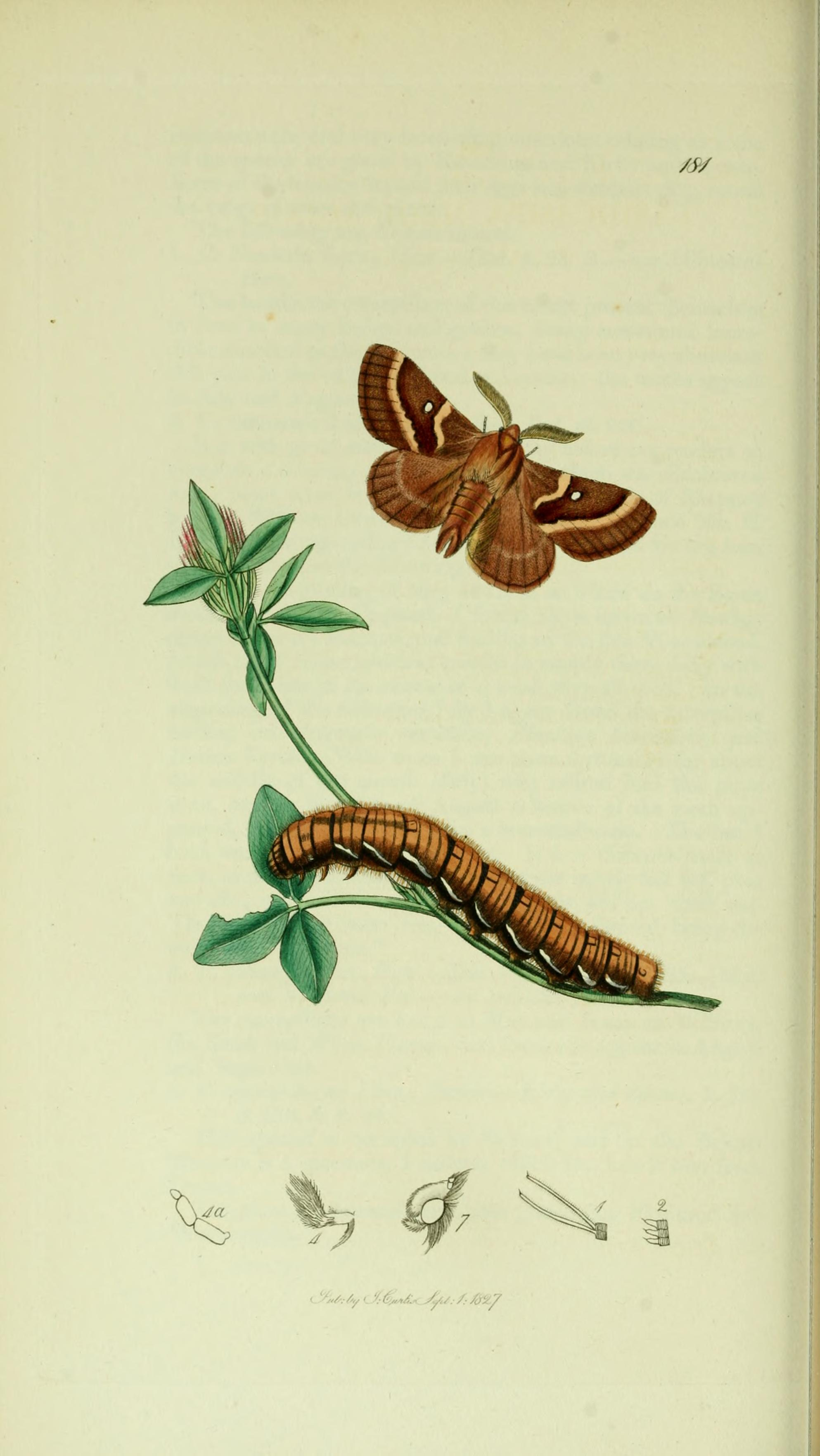 An illustration from British Entomology by John Curtis. Lasiocampa medicaginis (Medick Eggar Moth), probably Lasiocampa trifolii.